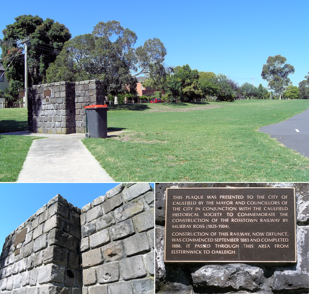 Centenary of construction commemorative plaque also showing the Marara Road reserve where the line once ran.